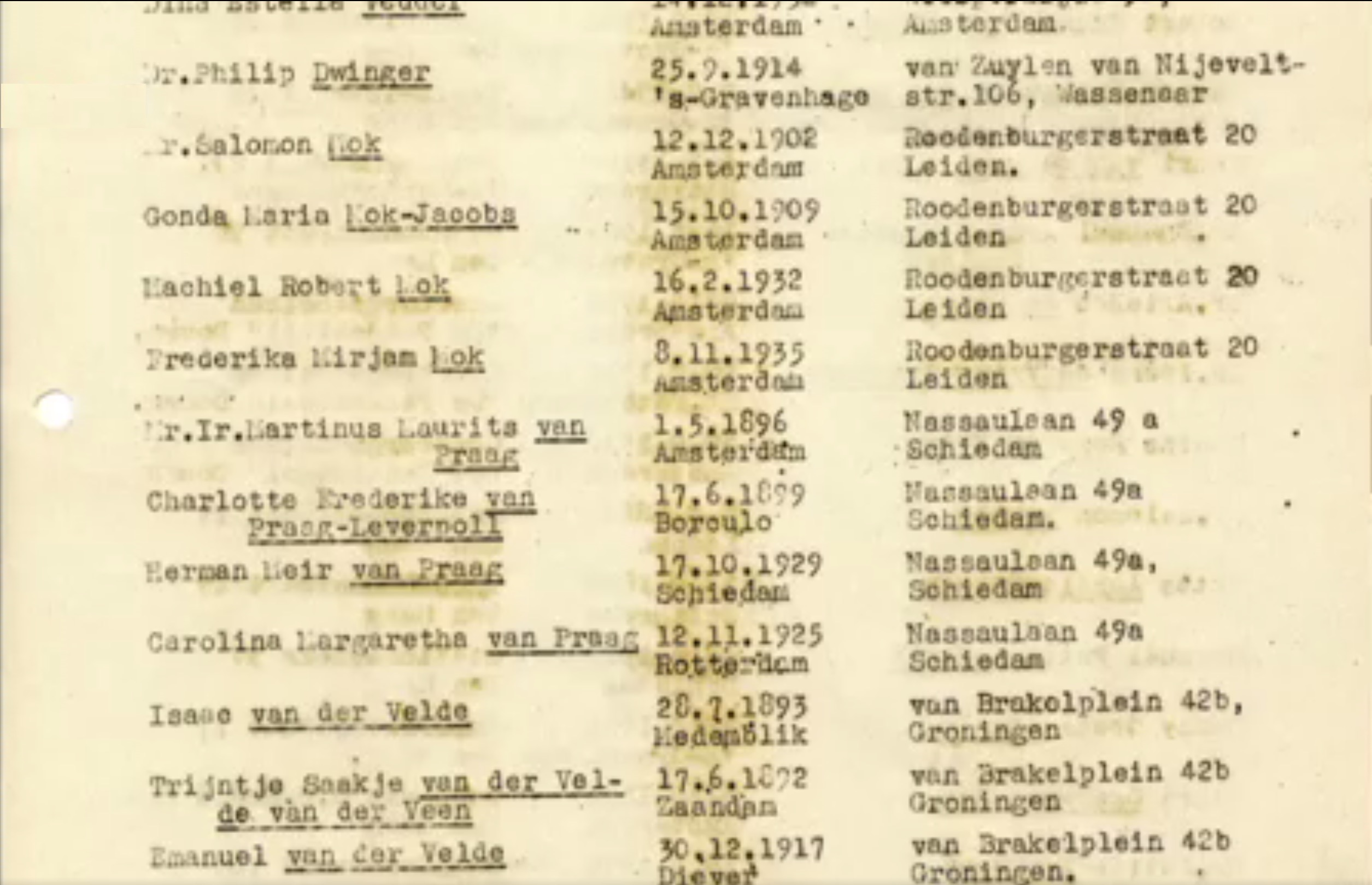 Een frament van de lijst Frederiks